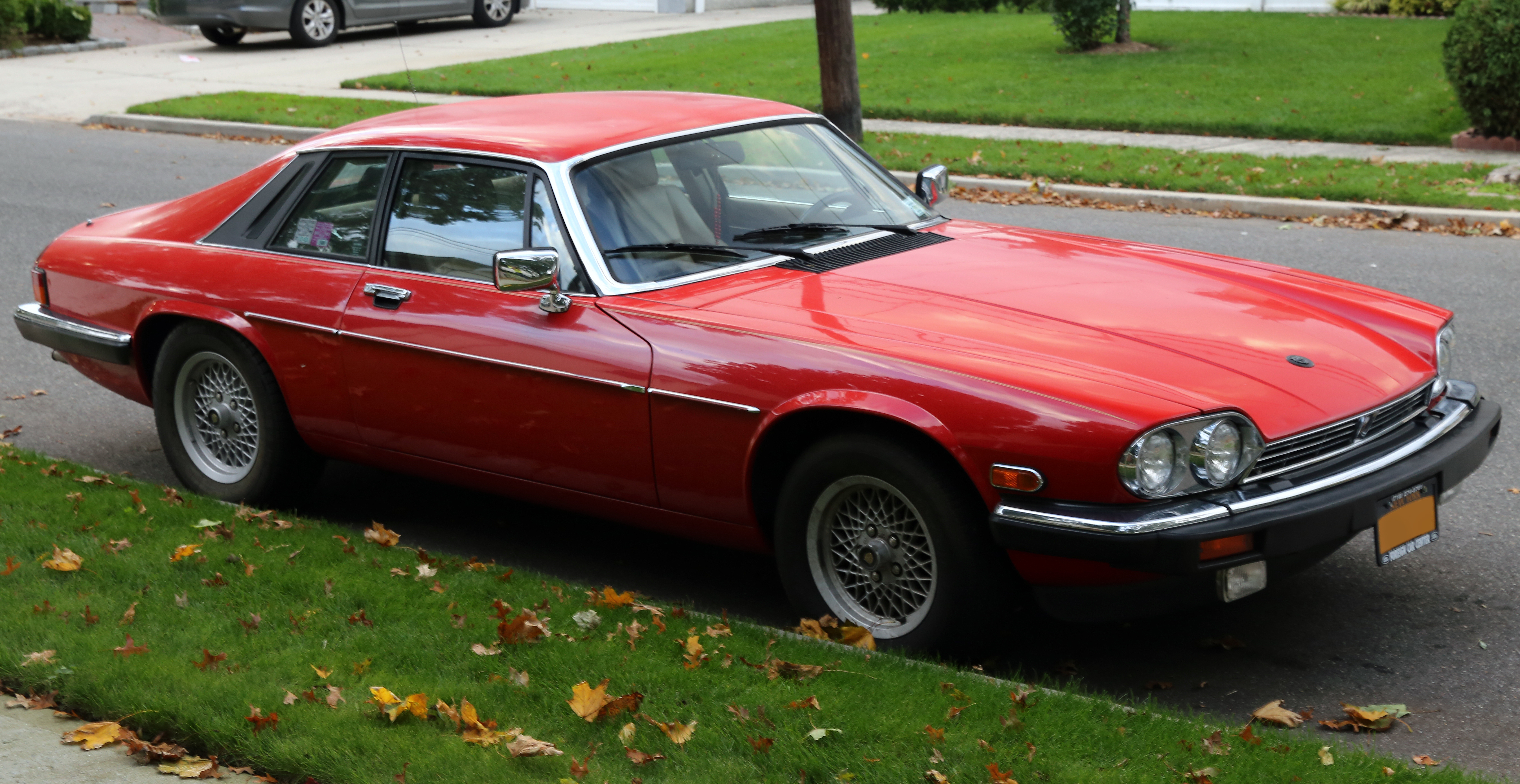 A 1989 Jaguar XJ-S V12 Coupé, federalized (North American) specifications.